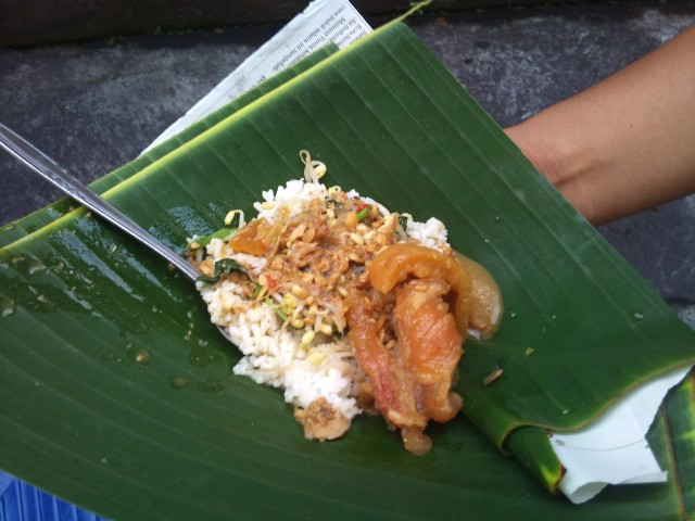 Tumpang Koyor, beef ligaments cooked with tempeh and spices, specialty of Salatiga